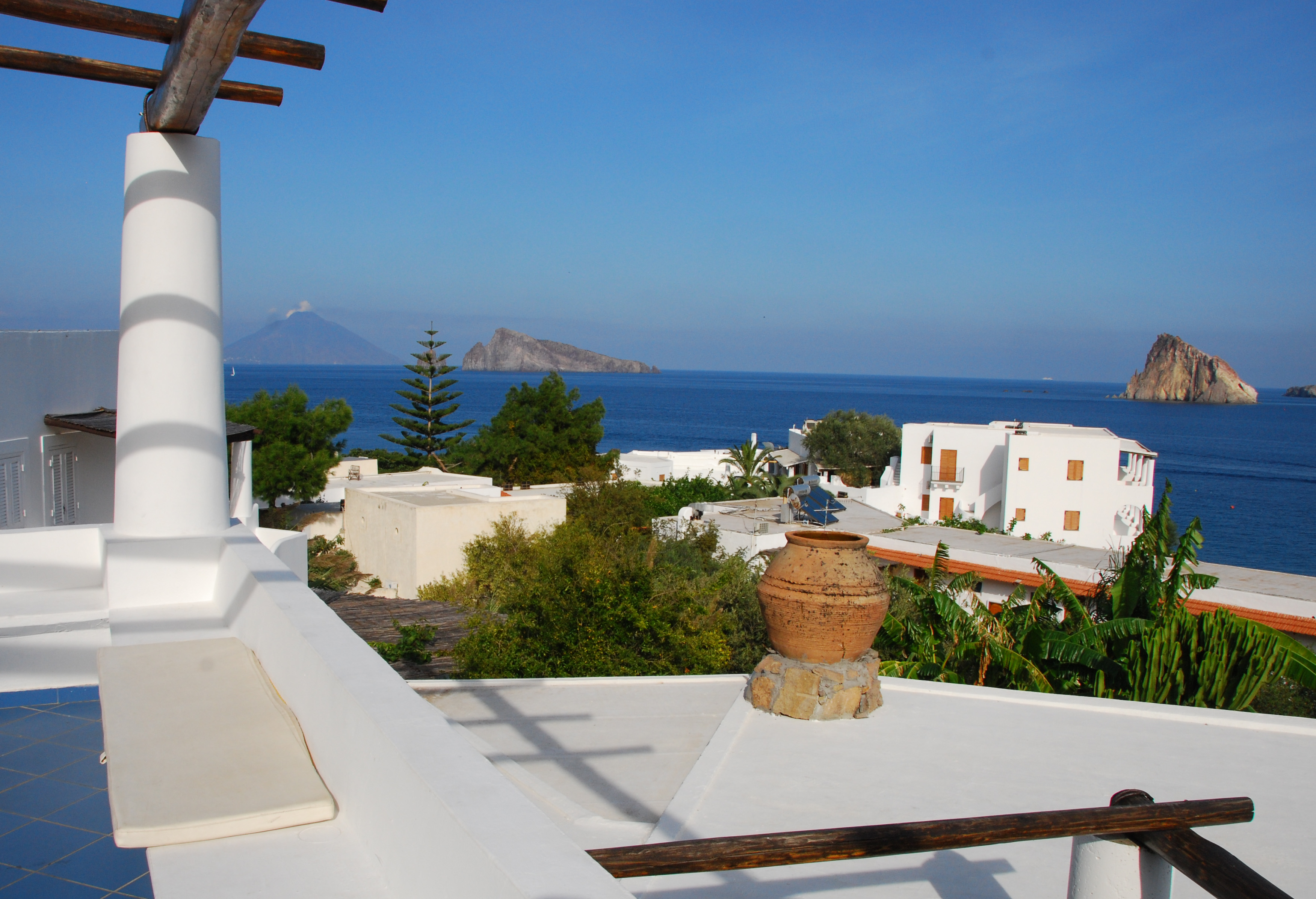 Beautiful ocean view with an active volcano (Stromboli) in the background. Panarea, Sicily, Italy